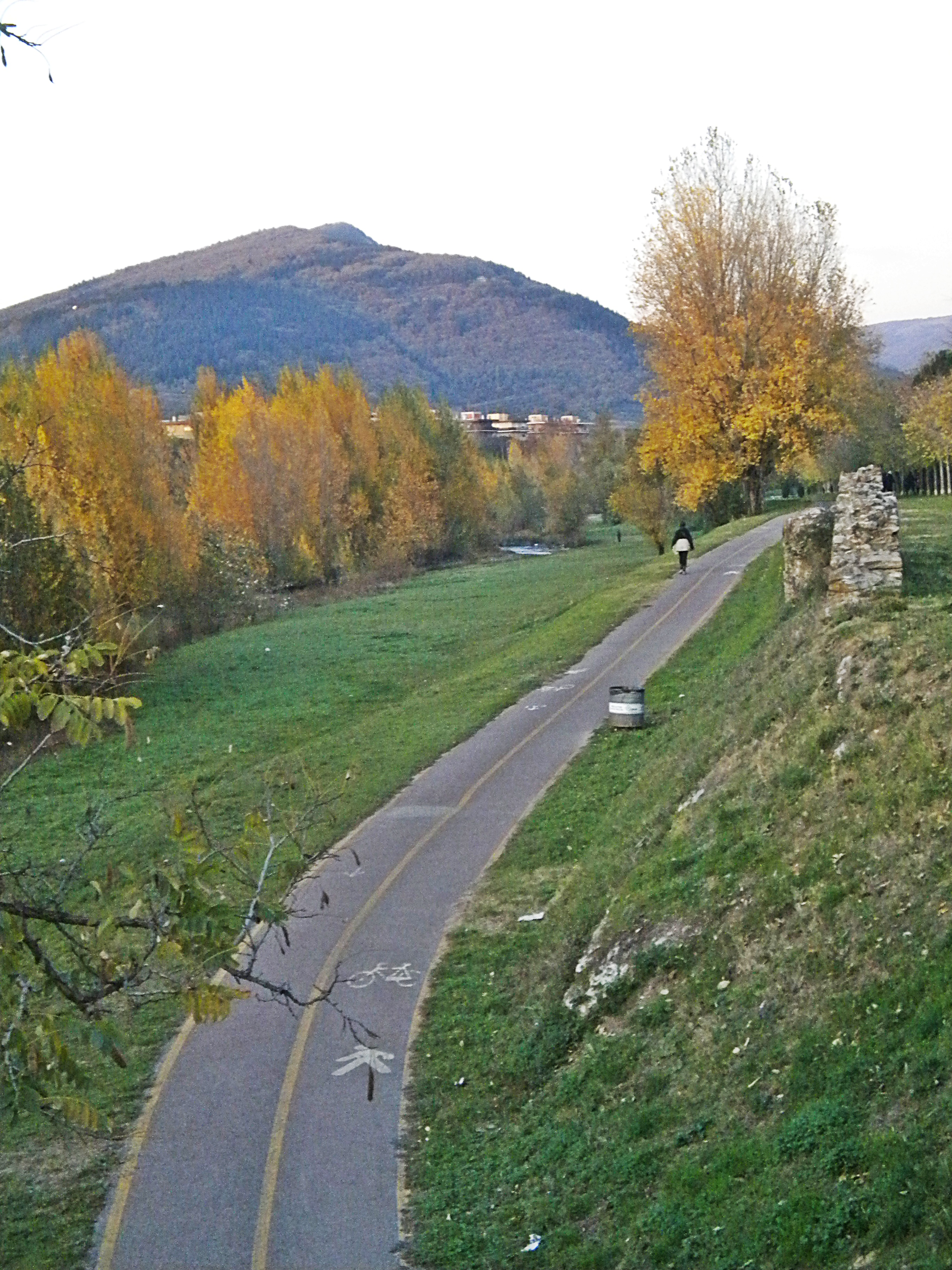 cicling track